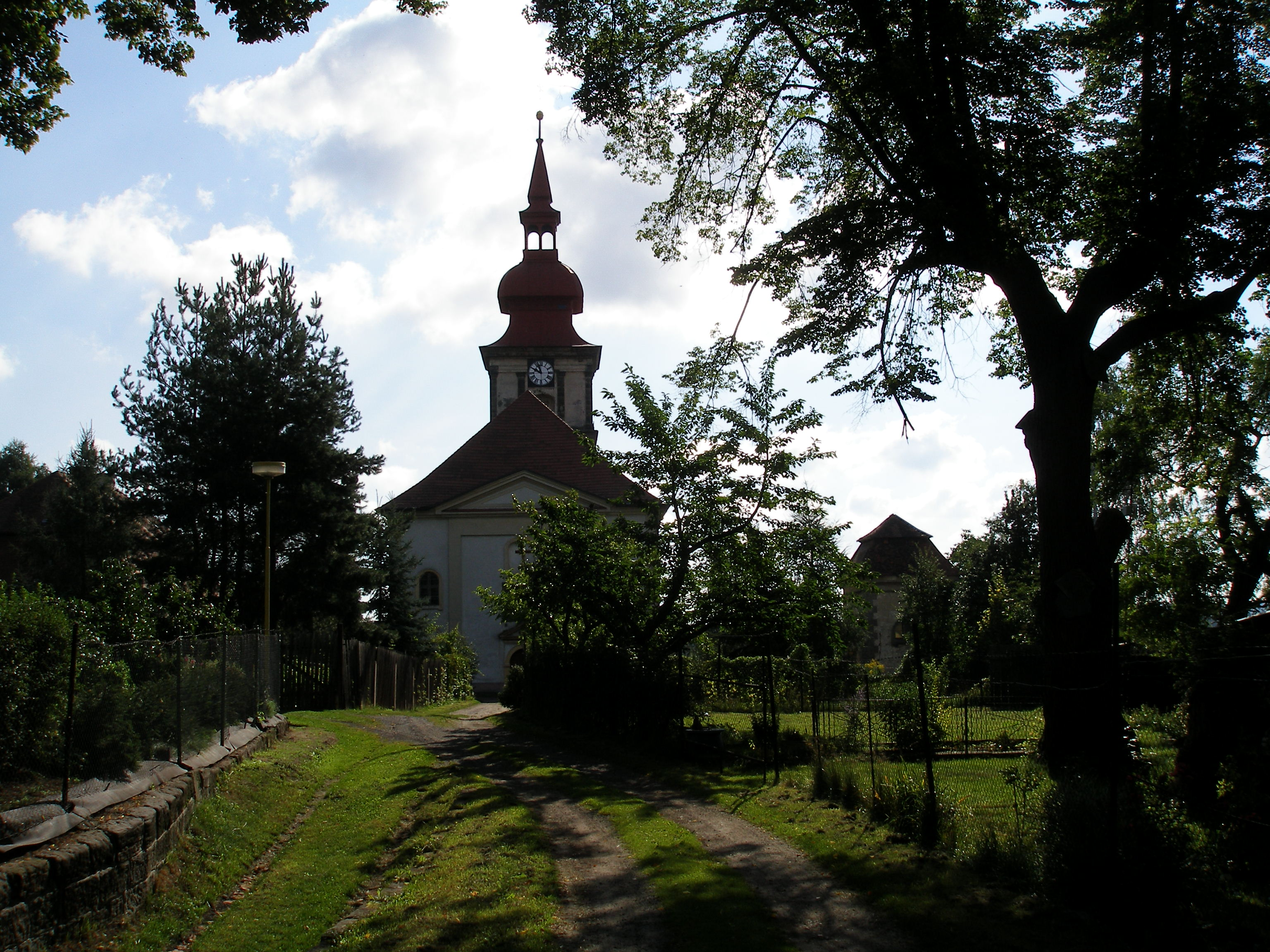 Ss. Peter and Paul Church in Mimoň (Czech)